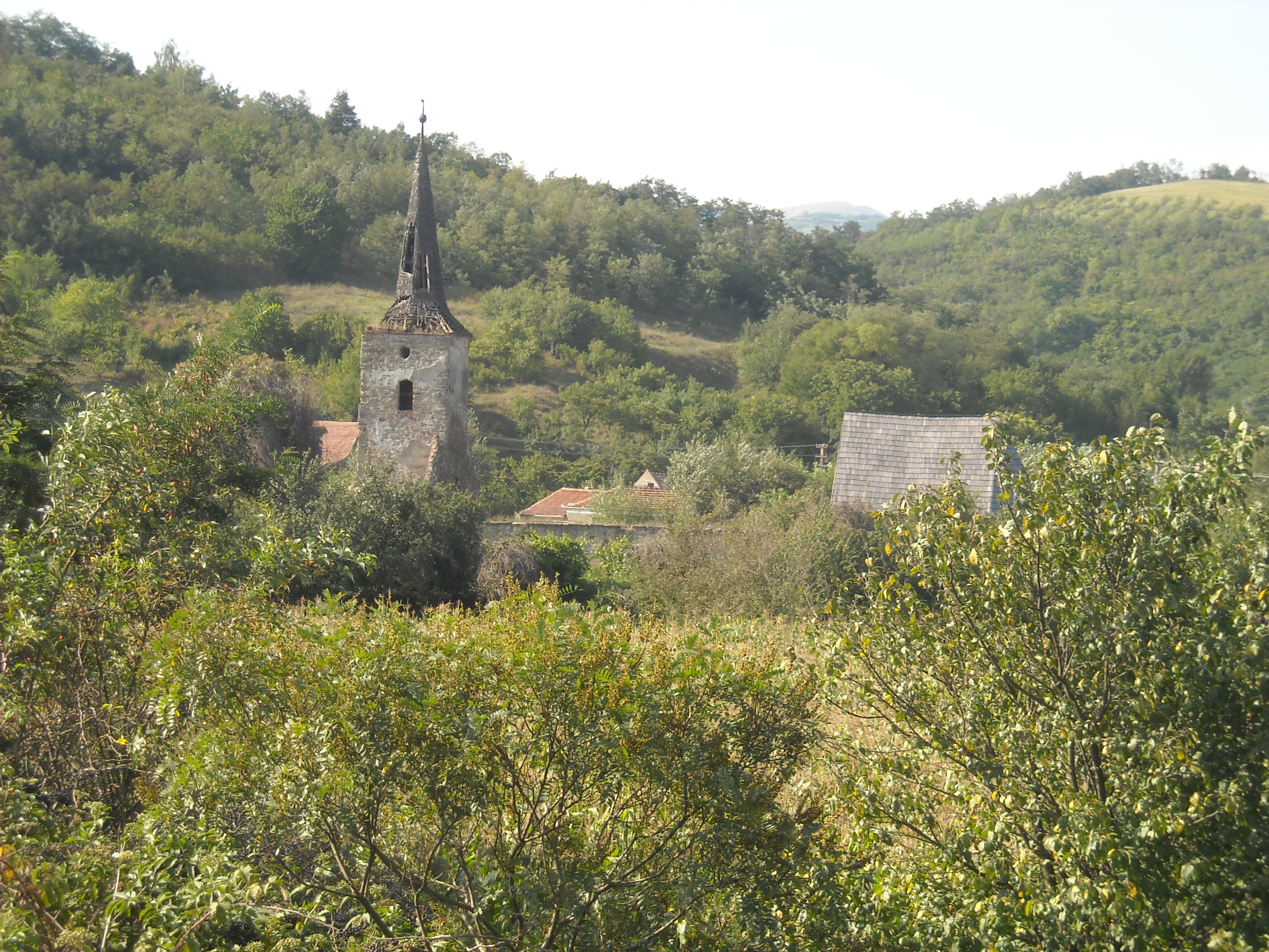 Calvinist Church in Vurpăr (Borberek), Alba County, Romania